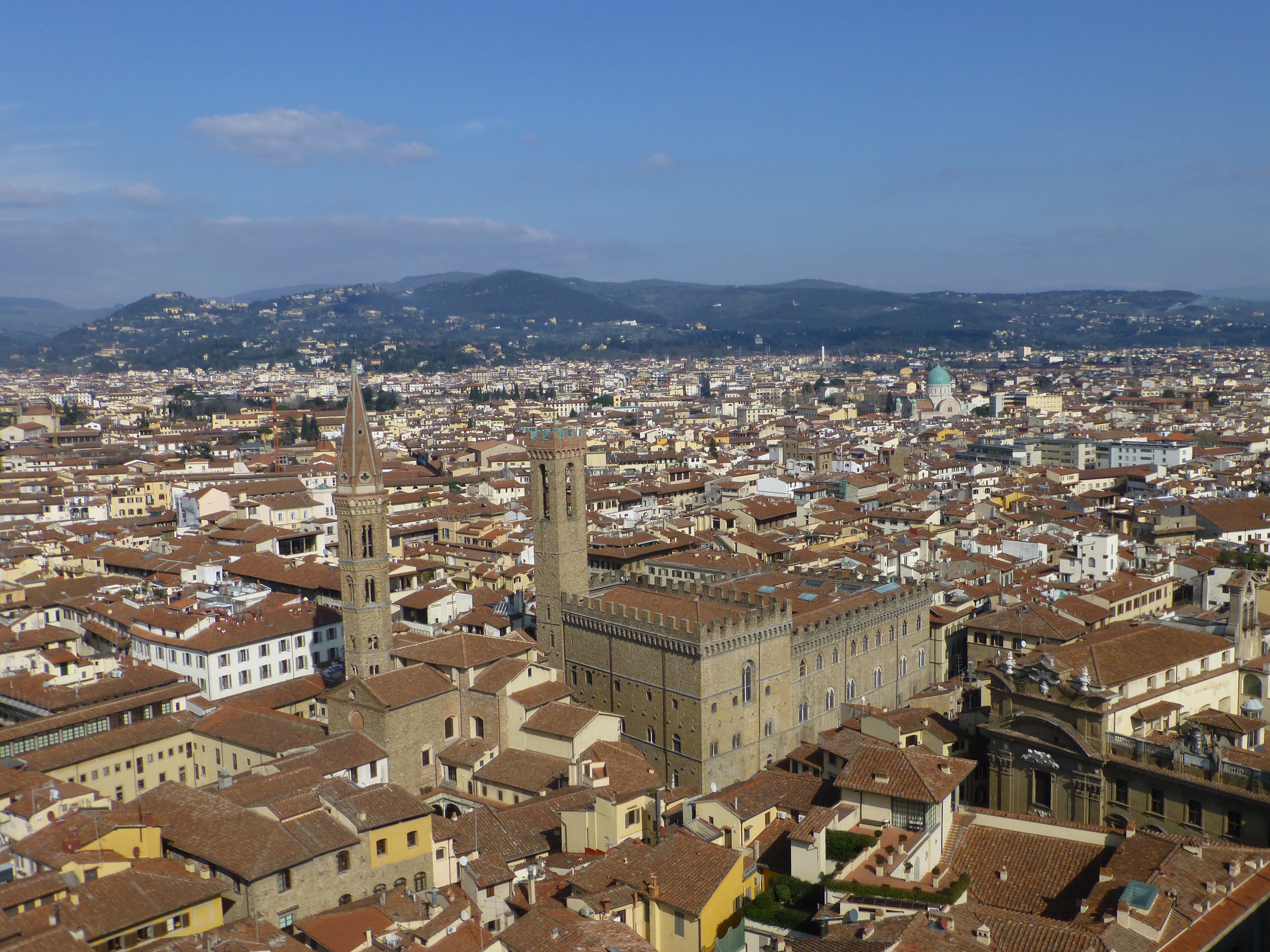 Palazzo del Bargello, Firenze, Tuscany, Italy.